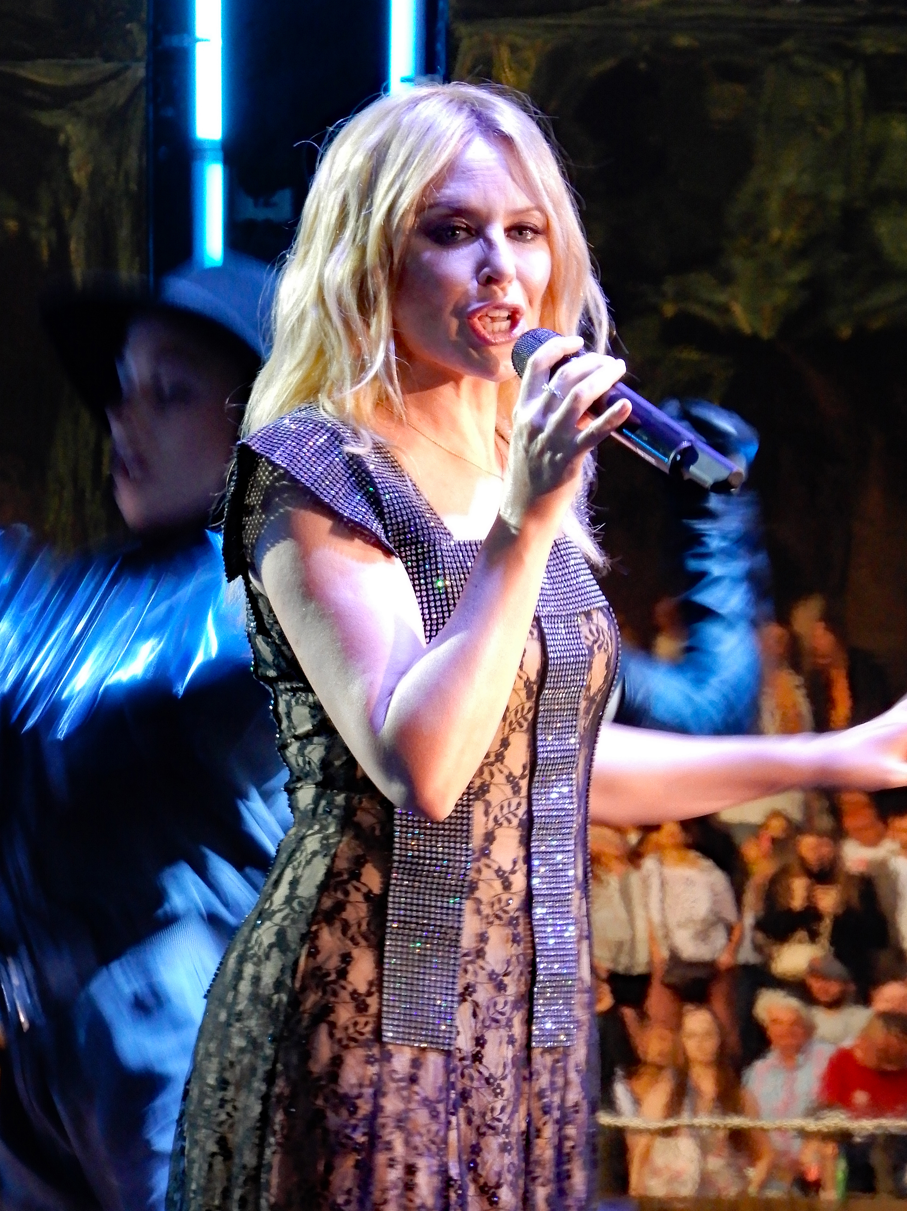 Kylie Minogue summer tour 2019